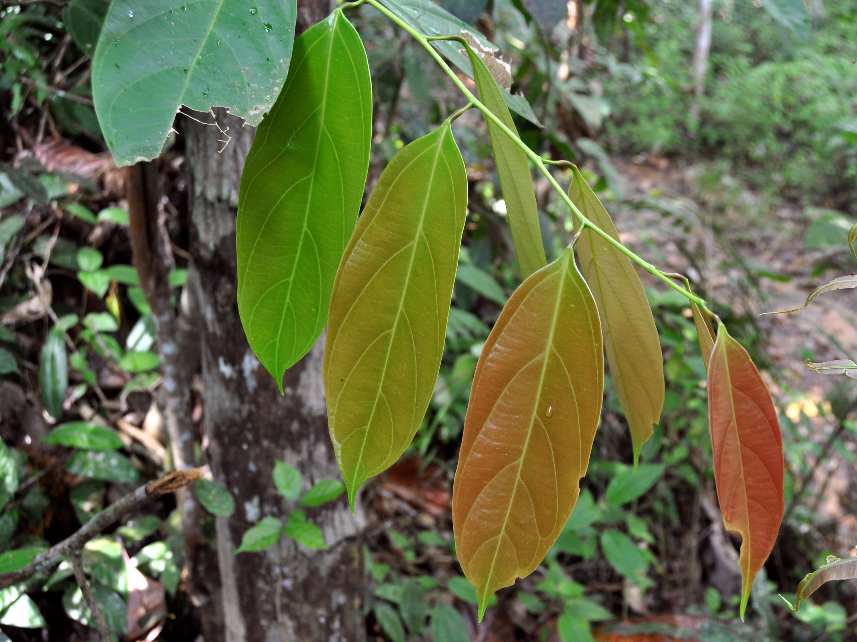 Scorodocarpus borneensis young leaves, from Jambi, Sumatra, Indonesia.